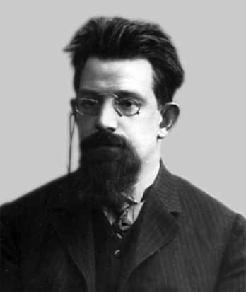 Photograph of Peter Berngardovich Struve